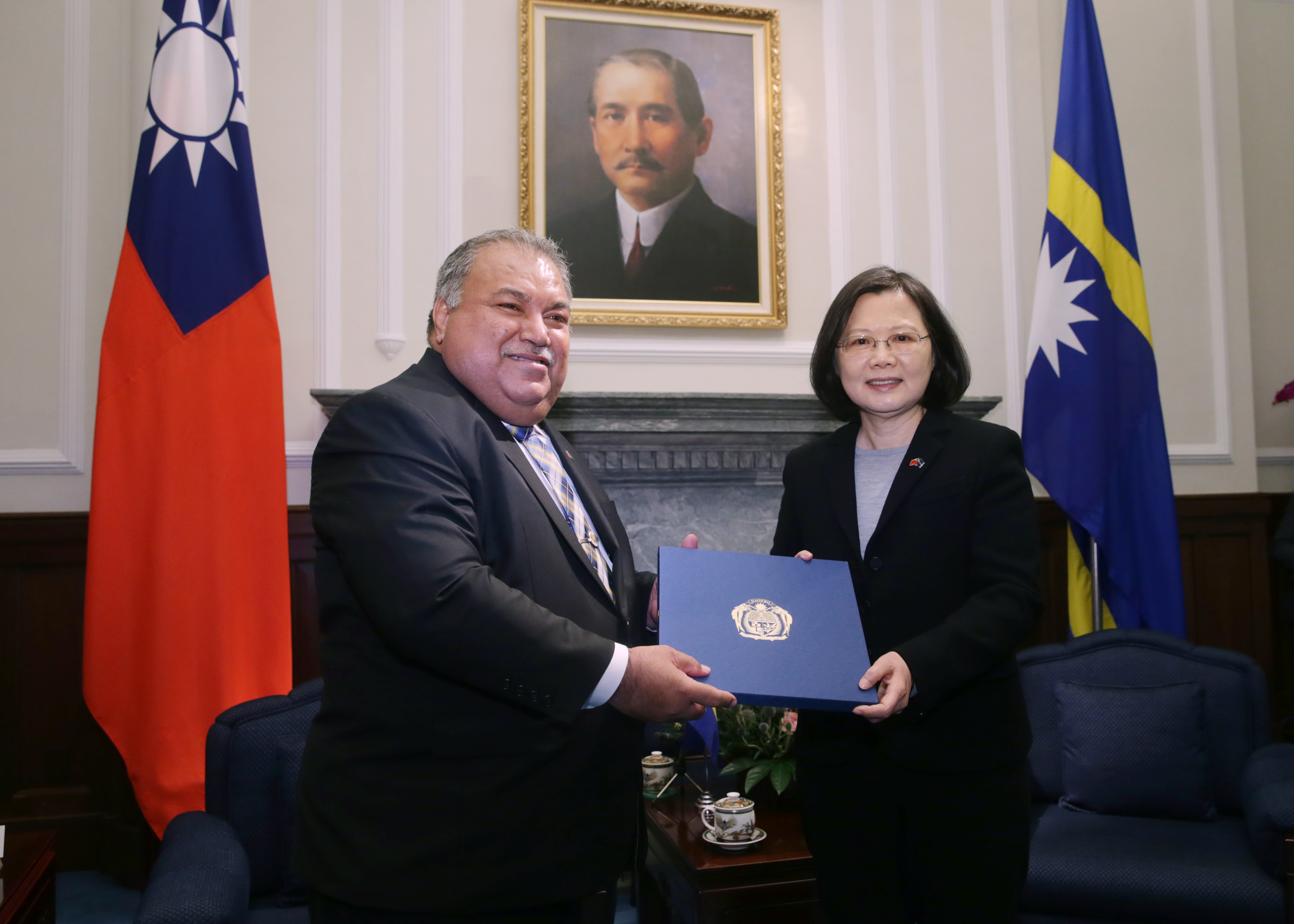 President Tsai exchanges gifts with a delegation led by Nauru President Waqa and Mrs. Waqa. (President Tsai welcomes Republic of Nauru President Baron Divavesi Waqa and Mrs. Waqa in the Presidential Office, 2017/03/07) 授權方式及範圍：中華民國總統府│政府網站資料開放宣告 Authorization Method & Scope: Office of the President, Republic of China (Taiwan) | Government Website Open Information Announcement